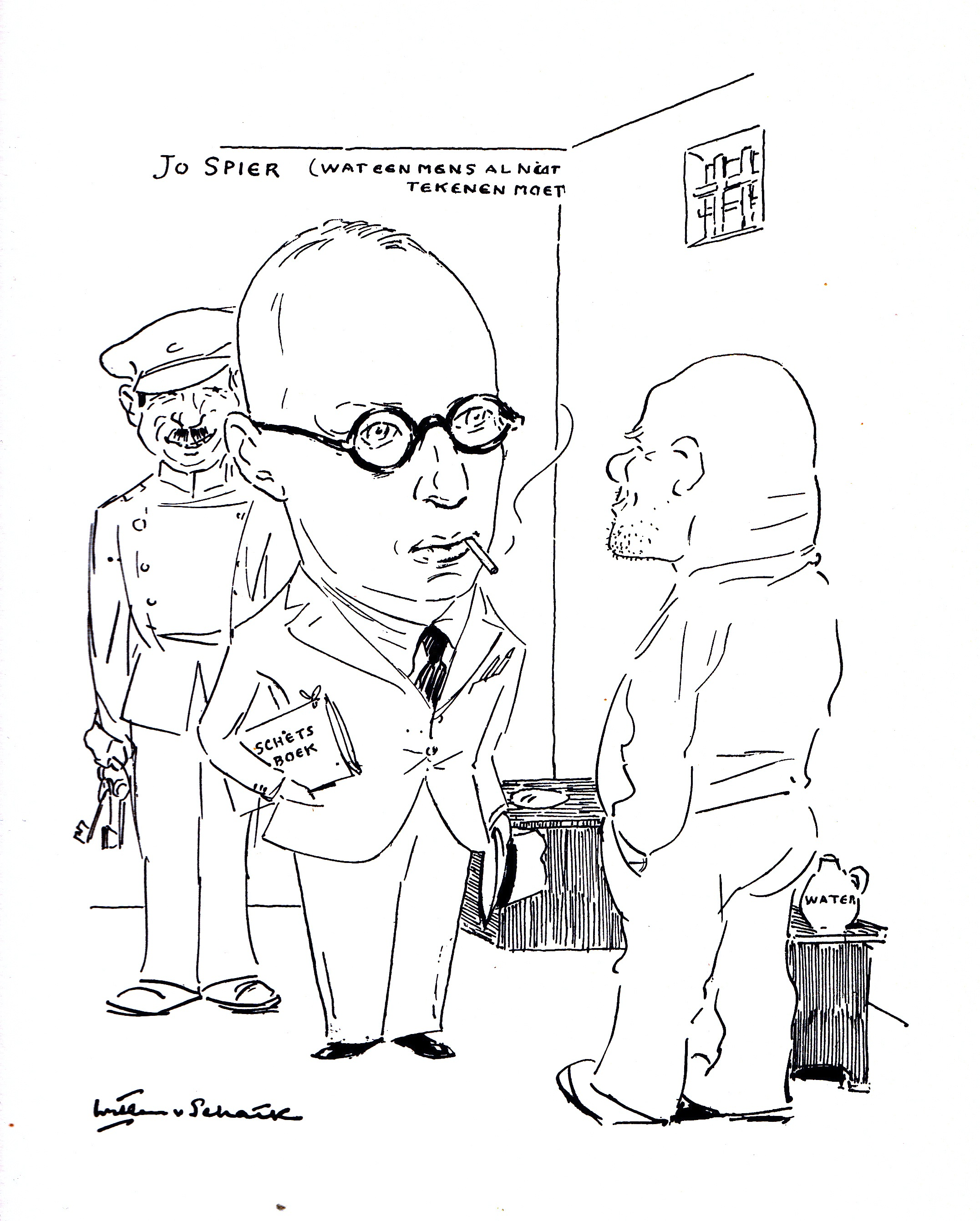 Jo Spier. Sketch drawn by Willem van Schaik (1876-1938)